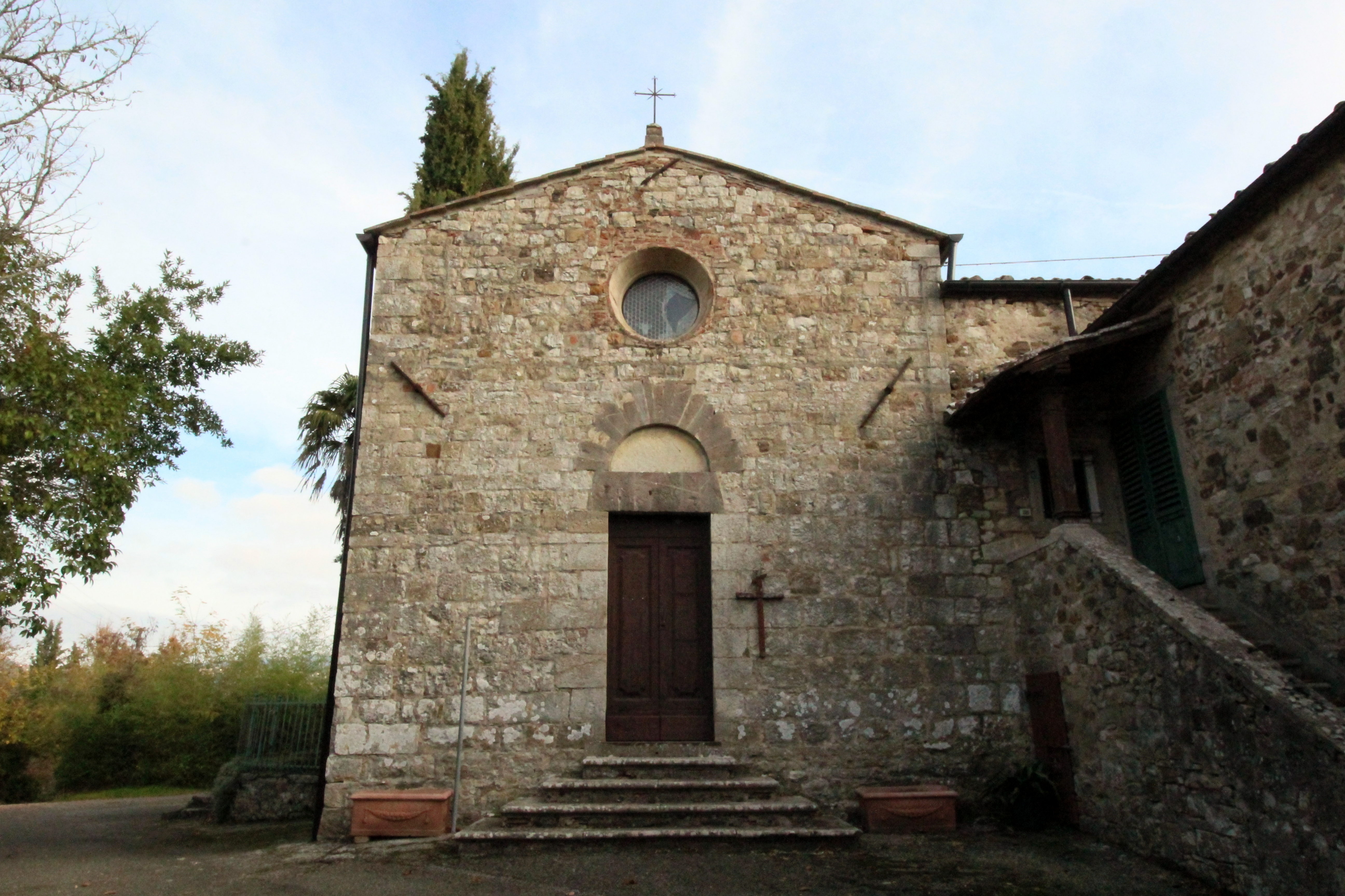 Church San Giorgio alla Piazza, La Piazza, hamlet of Castellina in Chianti, Province of Siena, Tuscany, Italy